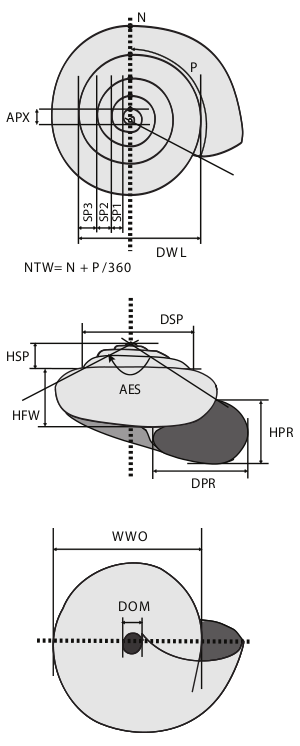 Schematic representation/drawing of the apical, apertural and basal view of the shell (probably Trochulus sp.) shows of the 14 measurements. Dotted lines represent orientation axes. N complete whorls P partail whorls NTW computed as the number of complete whorls plus the partial whorl (in degrees; divided by 360) APX the width of the apex SP1 the width of the first whorl SP2 the width of the second whorl SP3 the width of the third whorl DWL the diameter of the spire without the last whorl HSP the height of the spire HFW the height of the first whorl DPR the diameter of the peristome HPR the height of the peristome DSP the diameter of the spire AES the shape, measured as the angle formed by the apex and the most external sutures DOM the diameter of the umbilicus WWO the width of the shell without the opening